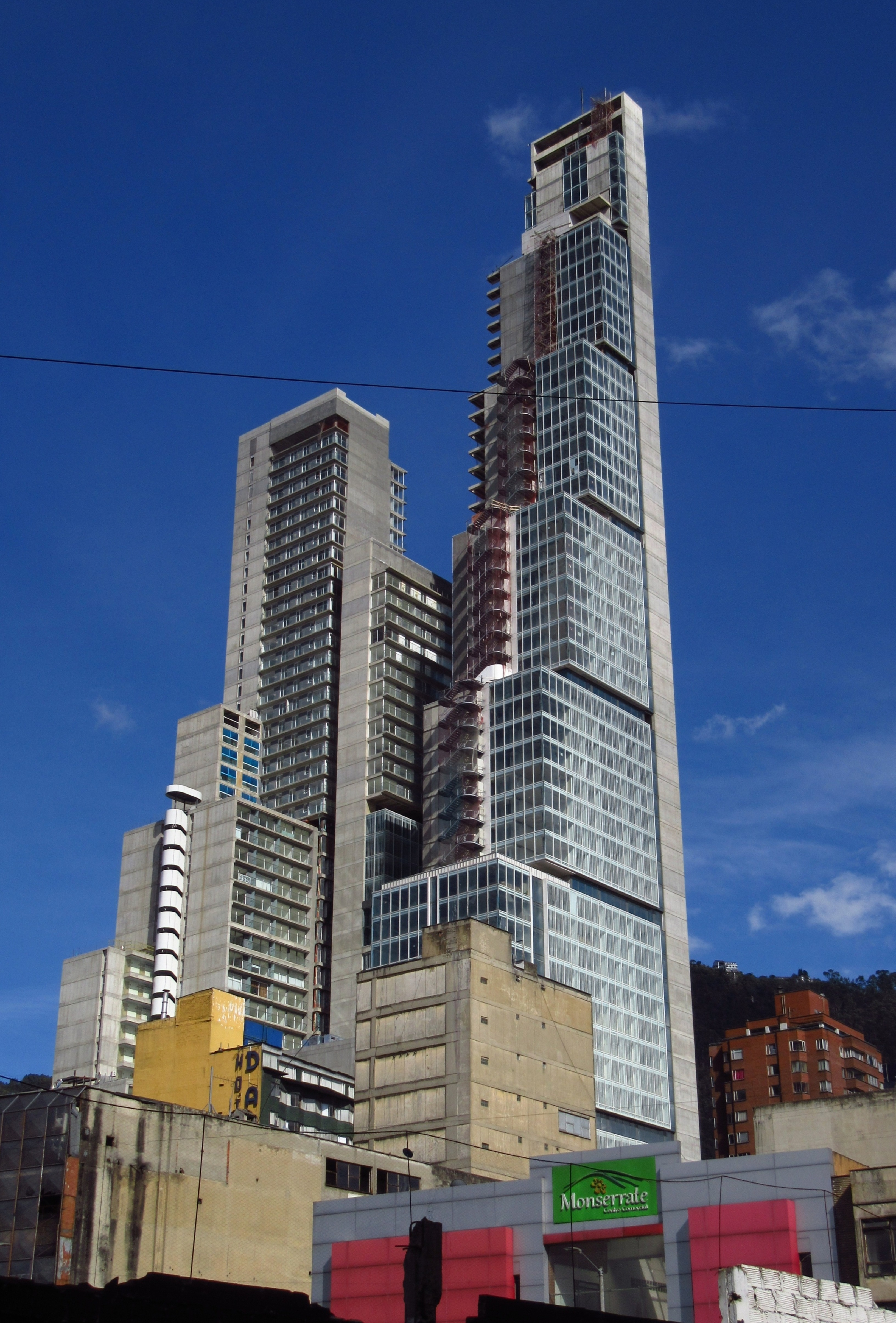 Bogotá